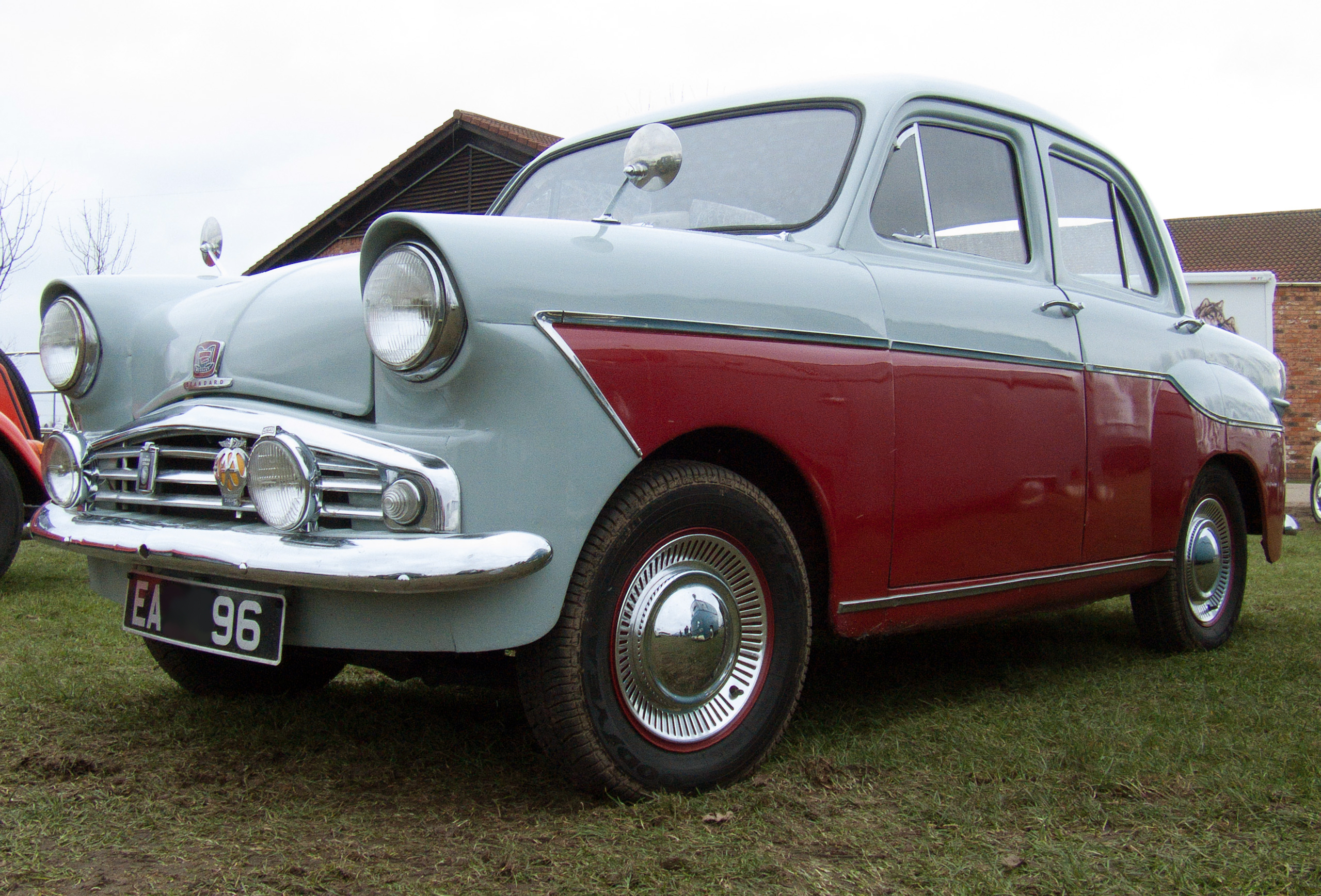 1959 Standard Pennant, 948cc